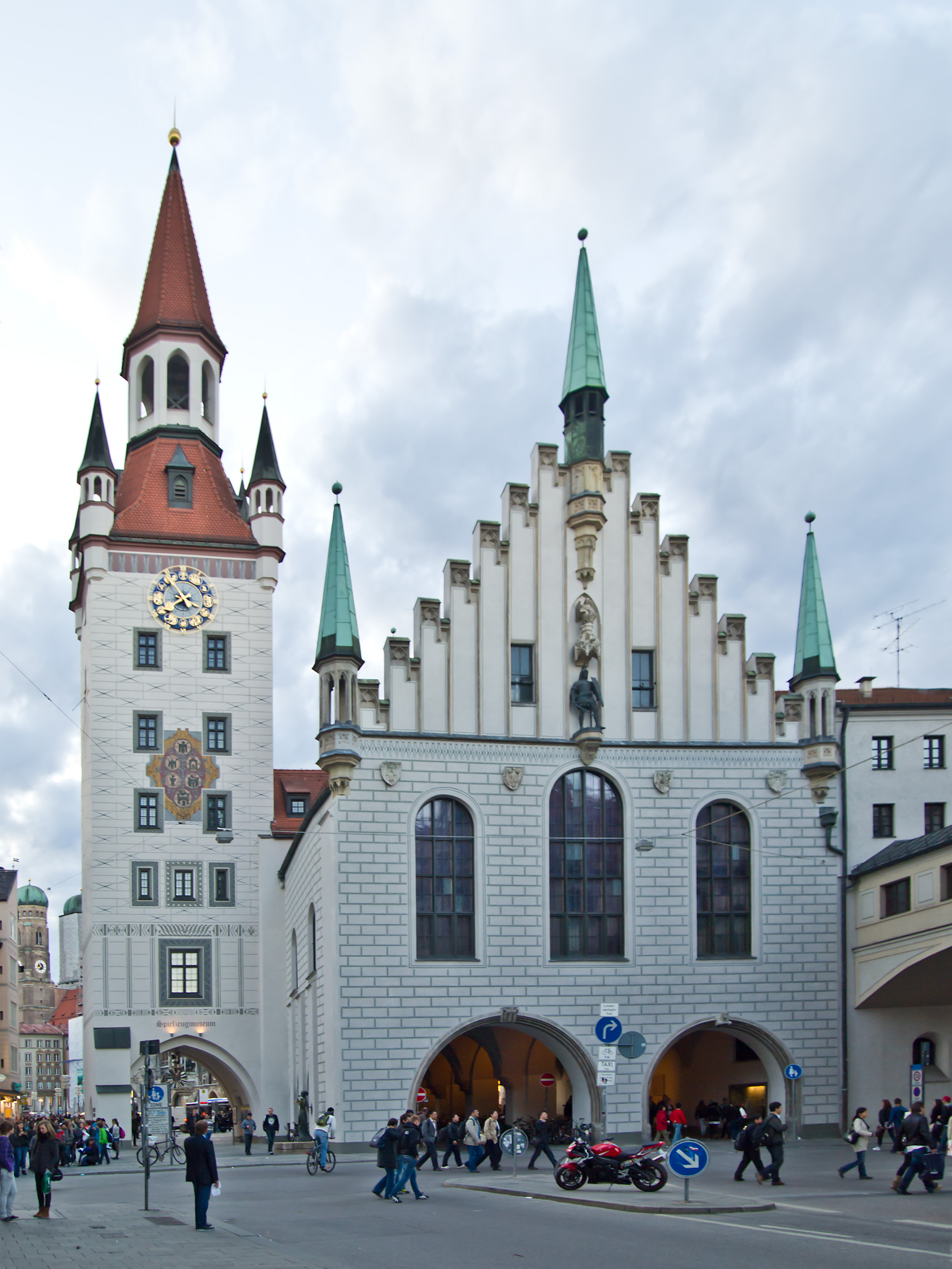 Munich, near Marienplatz: old City Hall, East Side